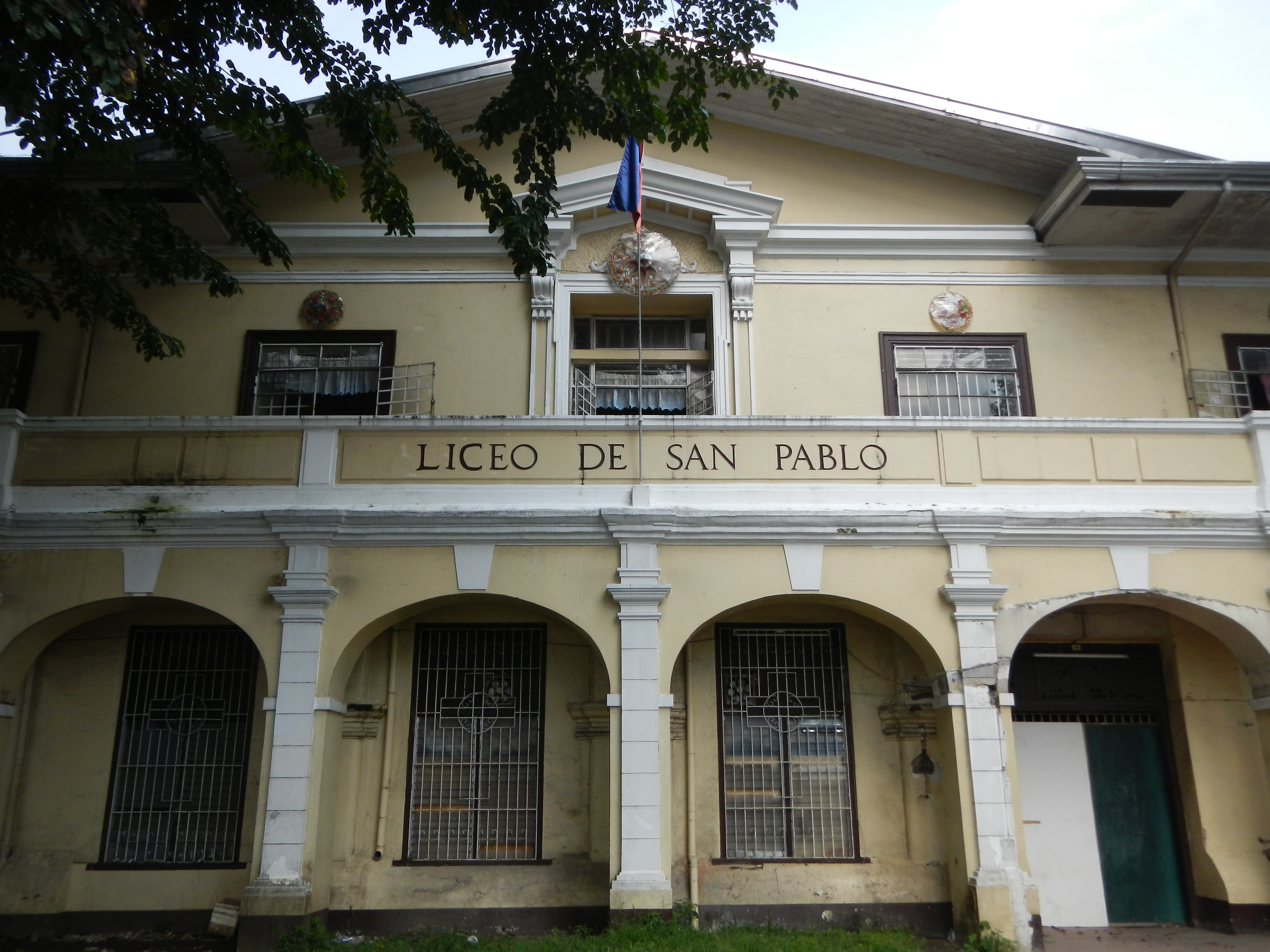 Liceo de San Pablo[1] formerly Ateneo de San Pablo[2], is a private sectarian, diocesan Catholic school in San Pablo City, Laguna. [3] [4] Coordinates: 14°4'7"N 121°19'37"E The Ateneo de San Pablo was a former Jesuit elementary and high school in San Pablo, Laguna, Philippines. It was established in 1947. The school was closed by the Diocese of San Pablo in 1978, and turned into a diocesan school. It became known as Liceo de San Pablo.